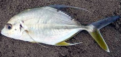 Carangoides oblongus, Taiwan